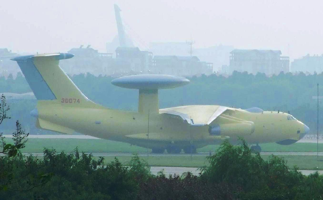 Kongyu 2000, People's Liberation Army Airforce.